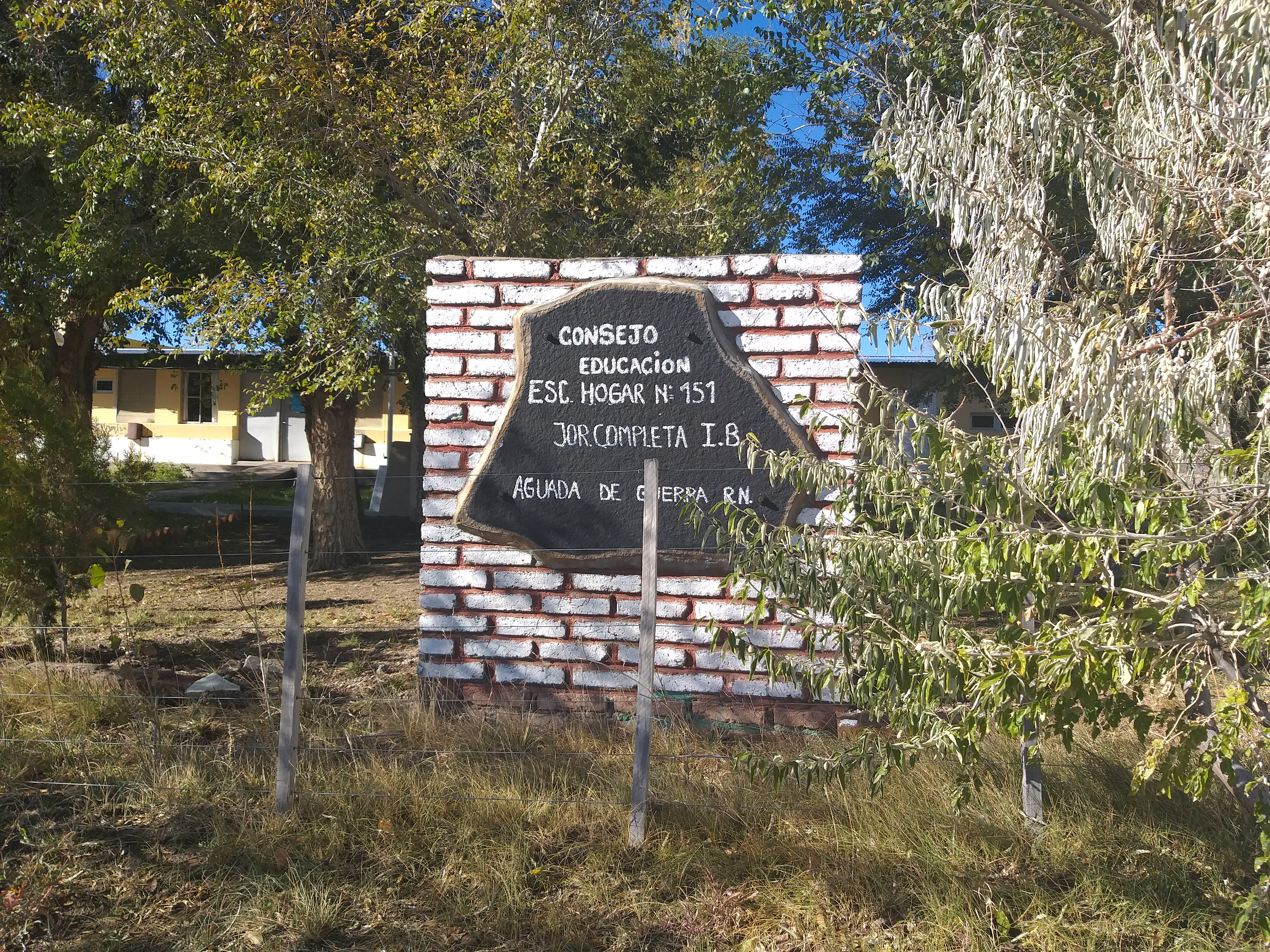 school